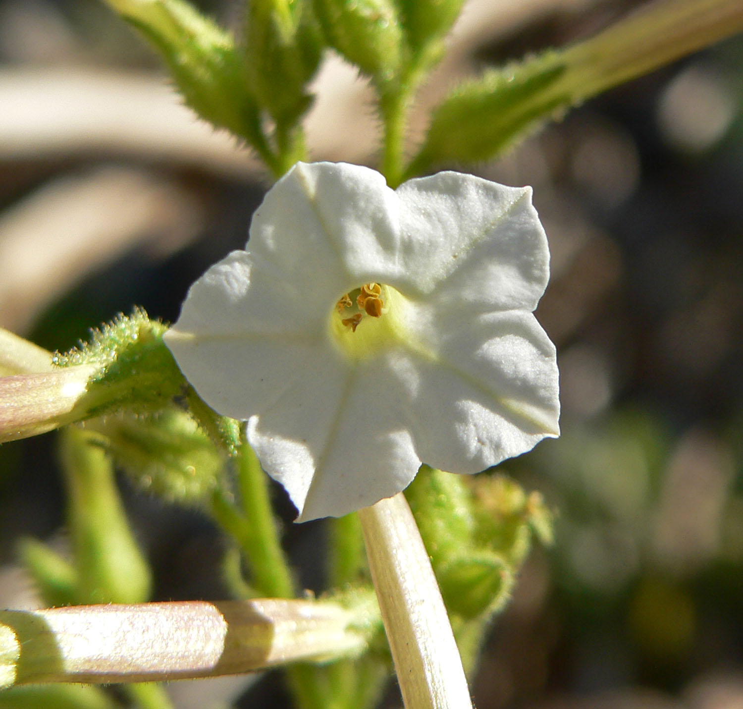 Nicotiana attenuata in Lovell Canyon, Spring Mountains, southern Nevada